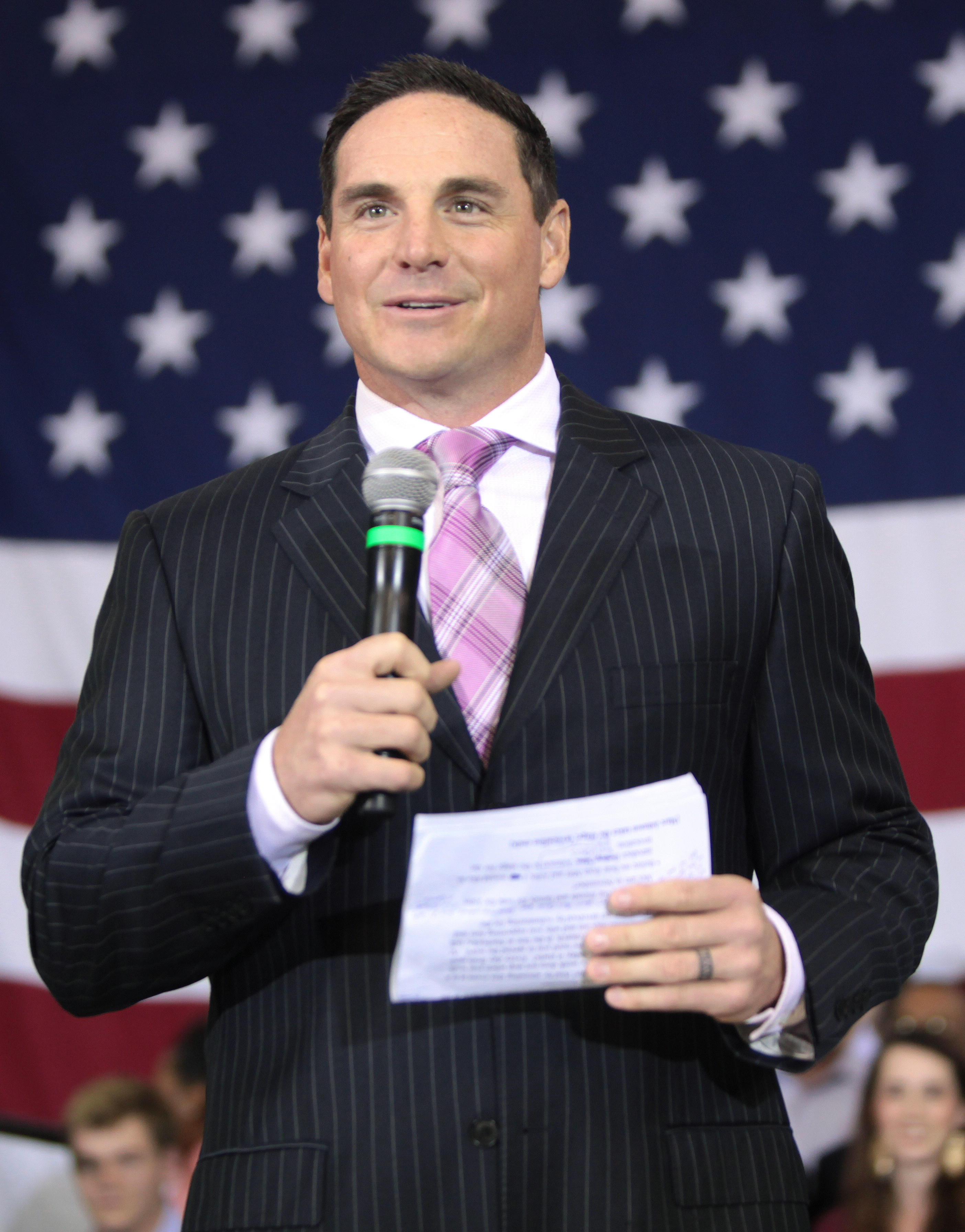 Jay Feely speaking at an event in Phoenix, Arizona.